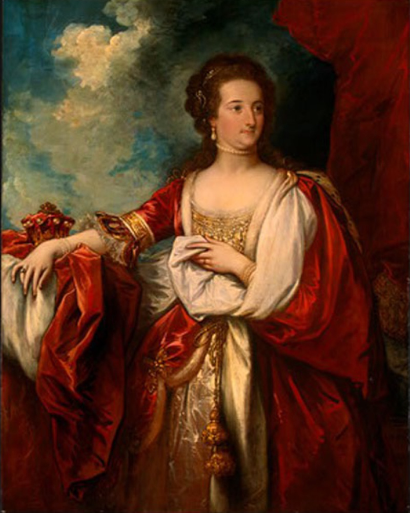 Lady Elizabeth Howard wife of Field Marshall Sir George Howard